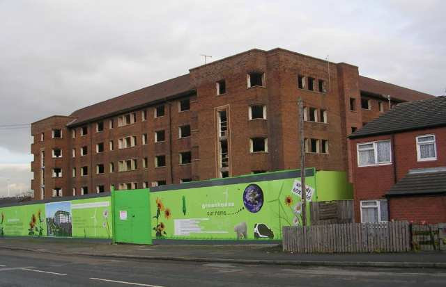 Disused Building awaiting conversion into flats - Beeston Road This is the same property as the first geograph for this square, but viewed from Beeston Road.